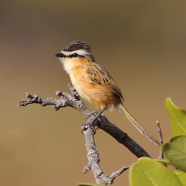 Sharp-tailed Tyrant at Alto Paraiso de Goias - GO - Brazil